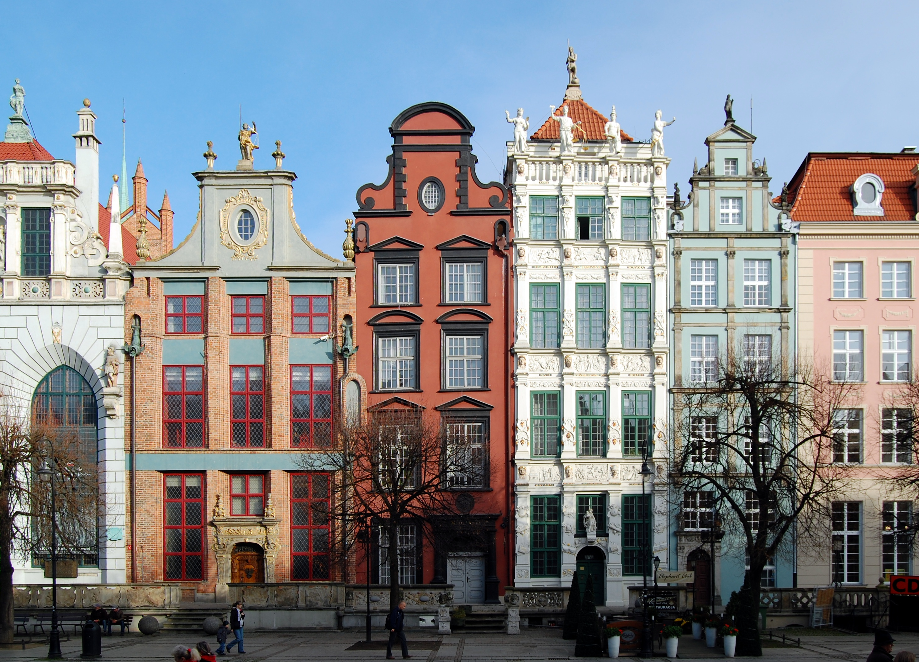 Houses at the Long Market, Gdańsk, Poland.